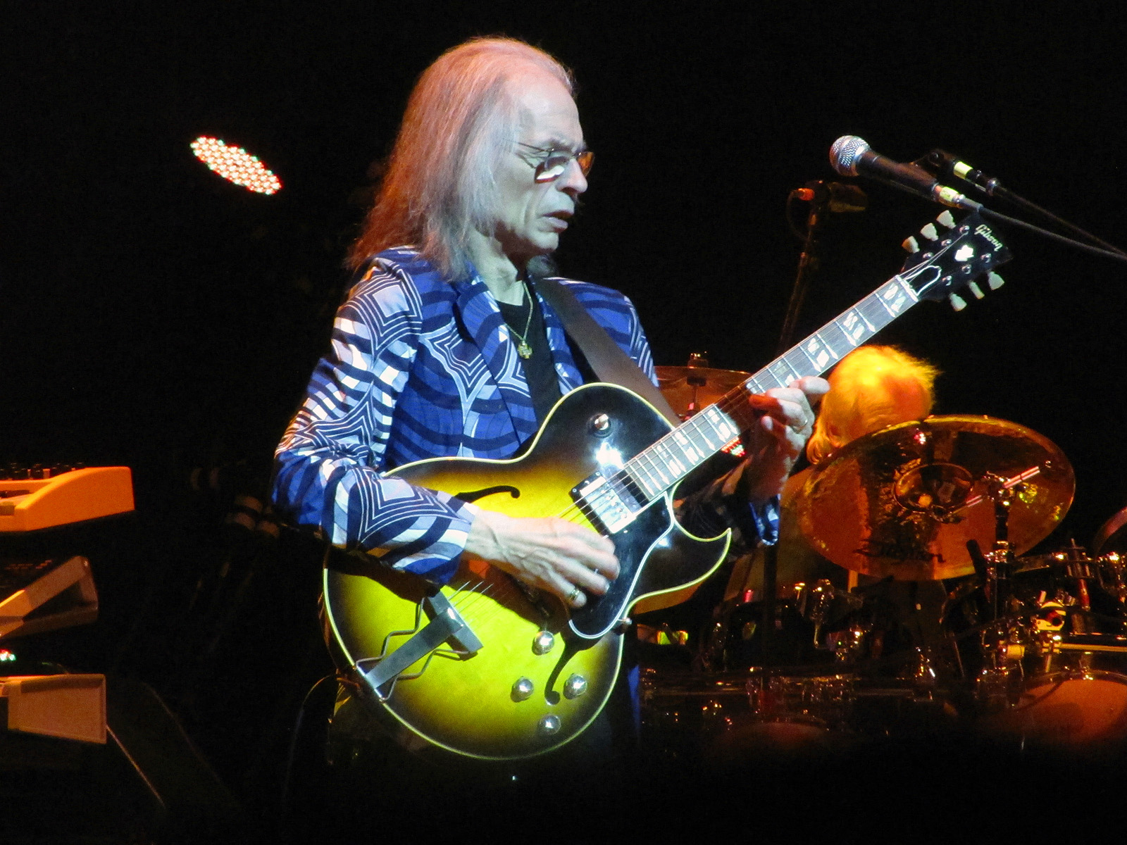 Yes concert at Massey Hall, Toronto, Ontario